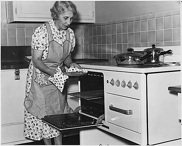 Rural Electrification Administration: Elderly lady removes pie from oven. (53227(1655), 27-0753a.gif)